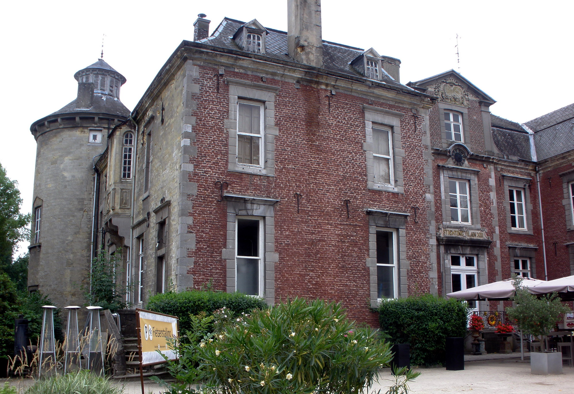 Leut, Belgium. Detail of the Castle Vilain XIIII. Southwest corner of main building, late 17th century, rebuilt in the 18th century. The tower probably dates from around 1500.